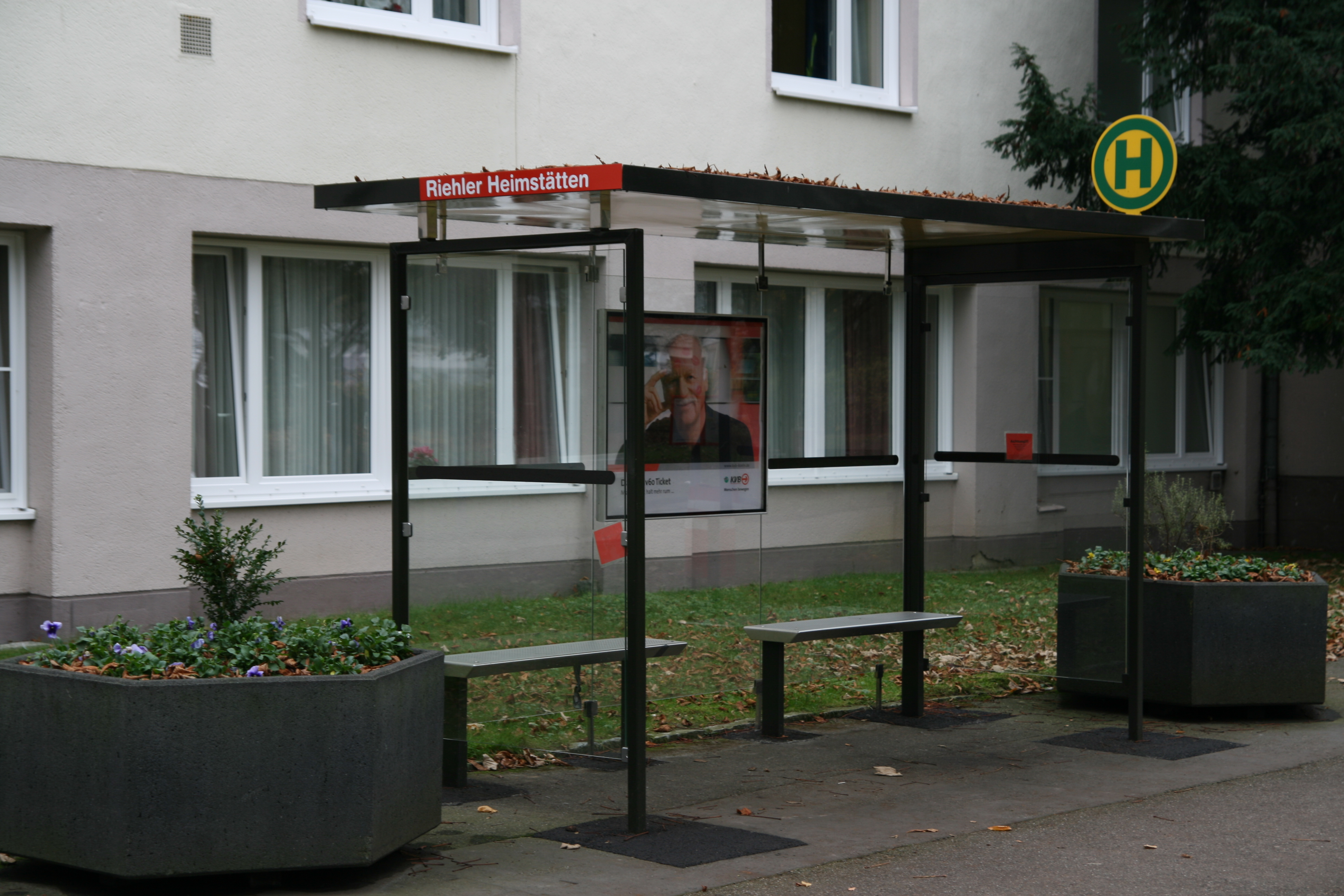 False bus stop in Cologne's Riehler Heimstätten, a nursing home. No bus ever stops here, as it was installed solely as a therapeutic measure for dementia patients